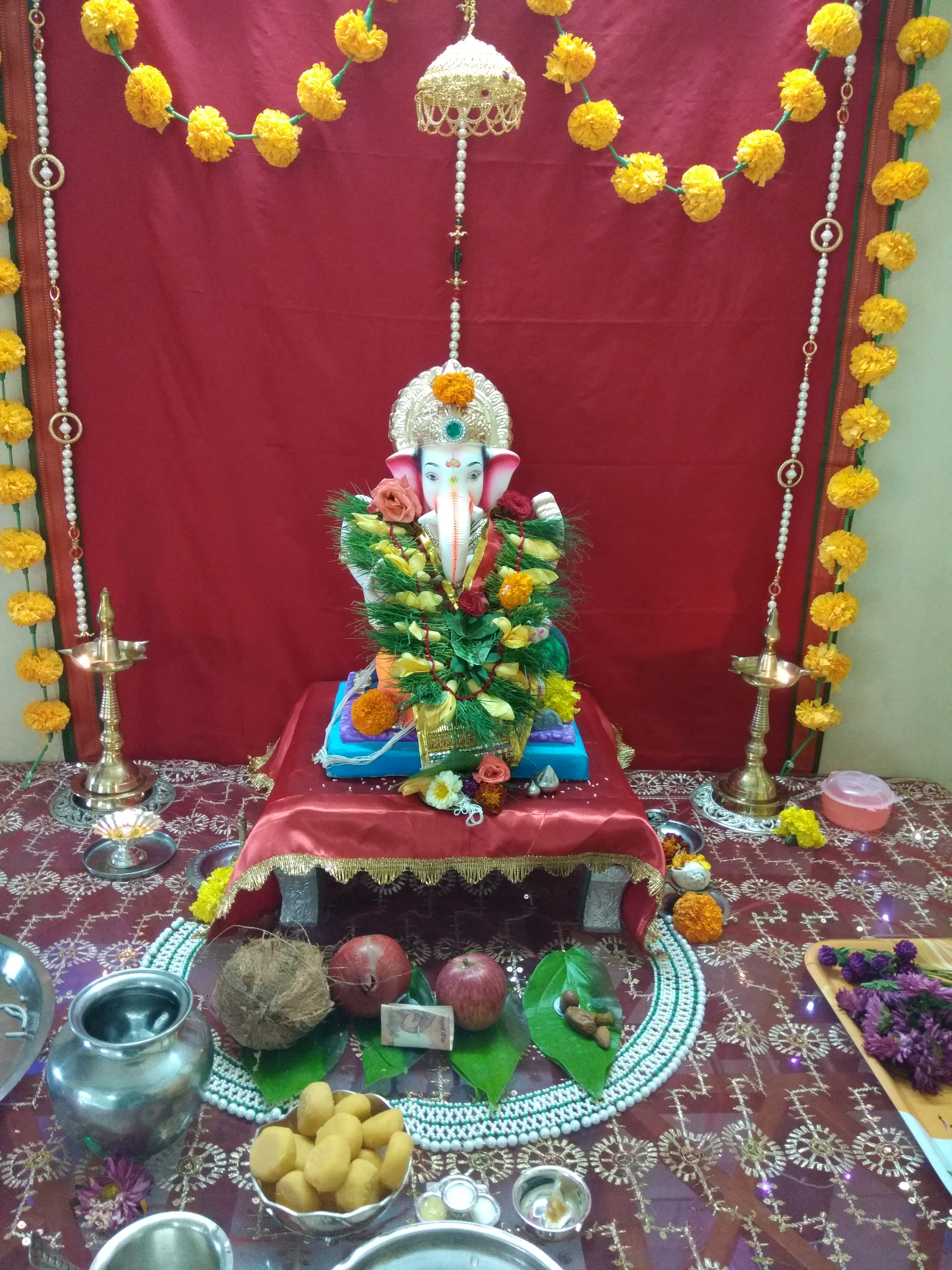 idol of lord ganesh